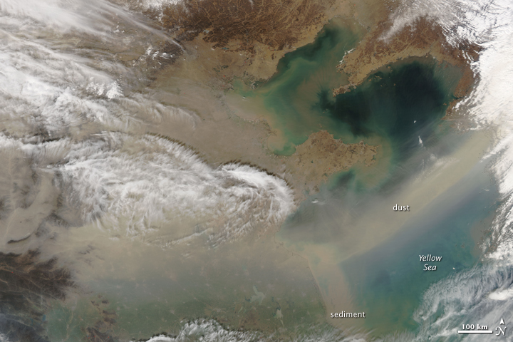 The Moderate Resolution Imaging Spectroradiometer (MODIS) on NASA’s Aqua satellite captured this image of a large dust storm sweeping across eastern China on March 12, 2010. In the natural color image, a ribbon of tan dust extends across the North China Plain and over the Yellow Sea towards the Korean peninsula. A bank of clouds, probably from the same weather system that caused the dust storm, frames the northern edge of the airborne dust. The source of the dust is not clear from this image, but the dust appears to have been transported from the west.